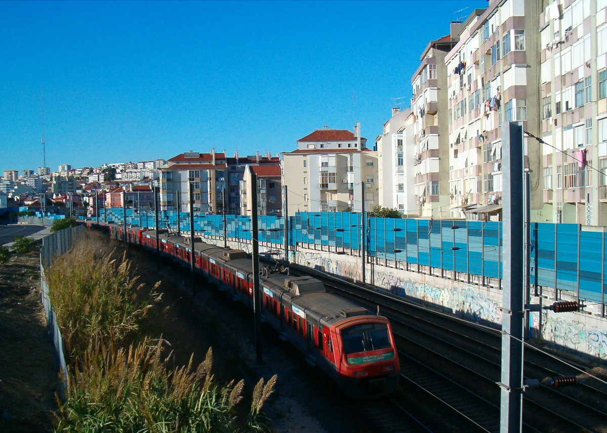 Amadora_-_train_in_Linha_de_Sintra